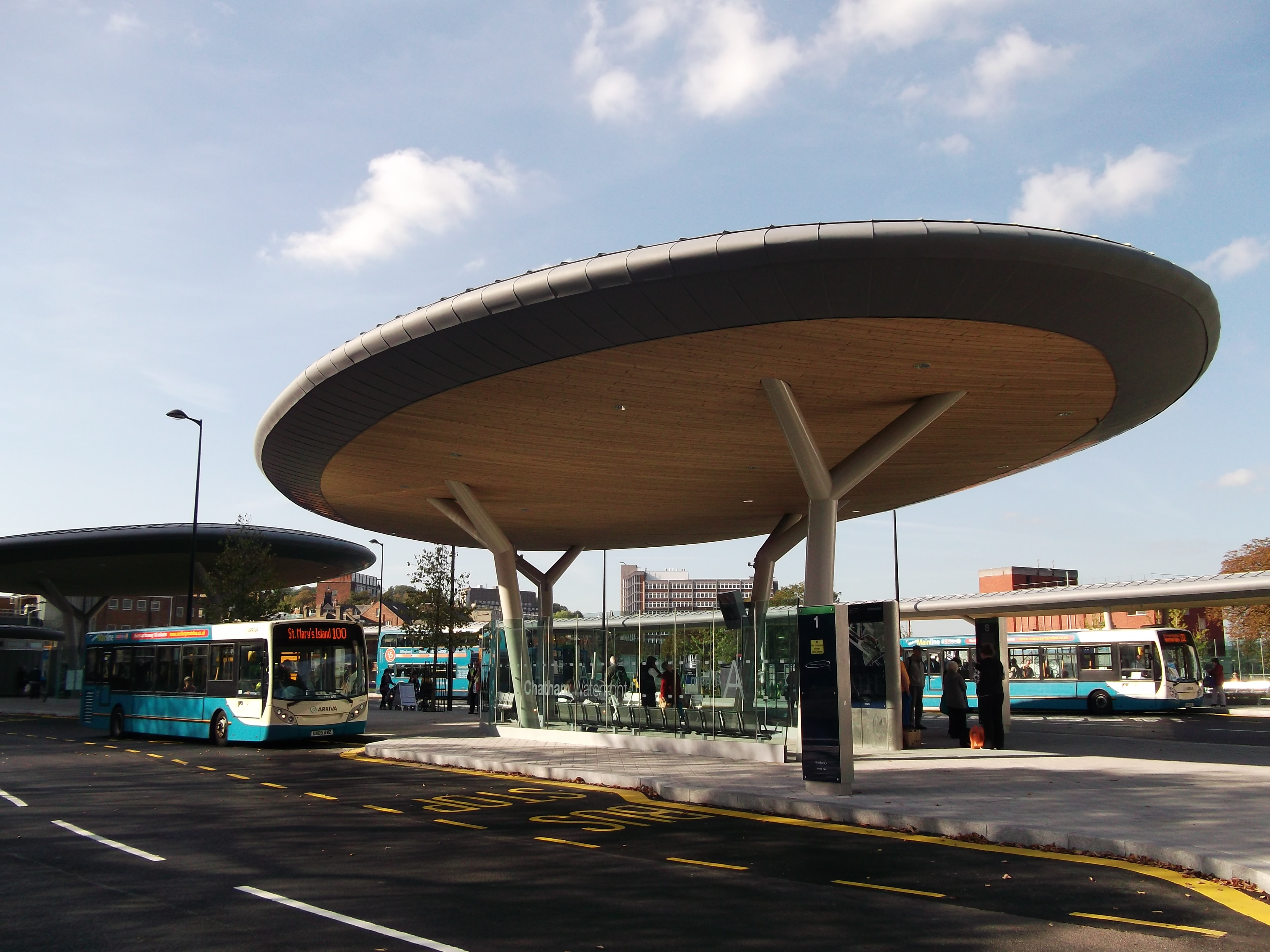 Platform A, Chatham Bus Station